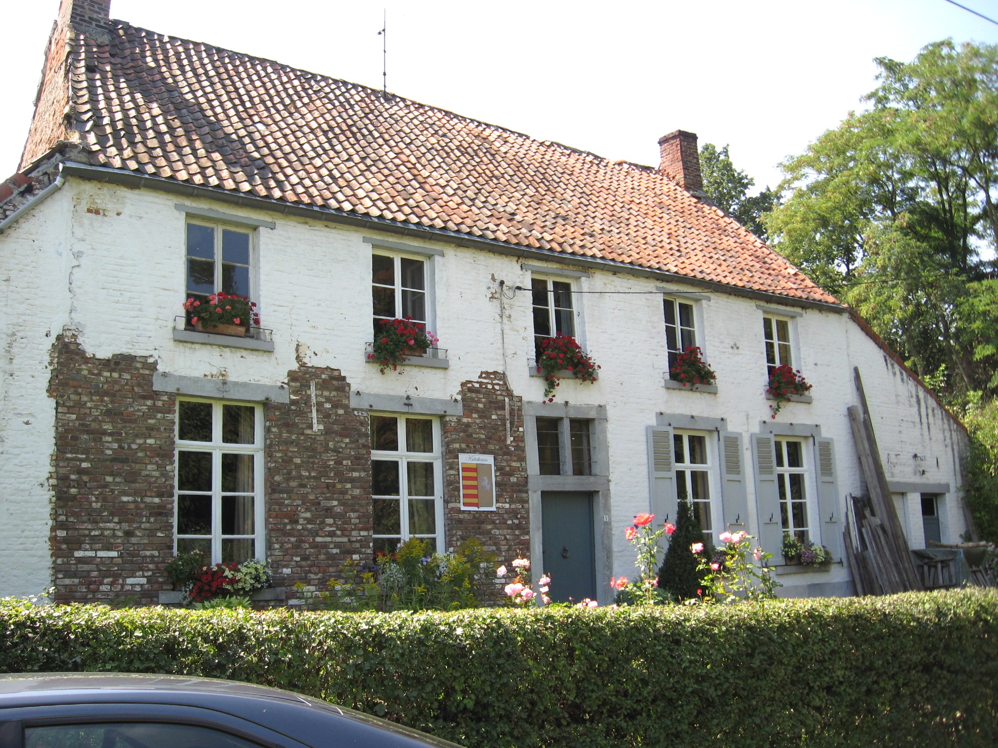 Former presbytery (1726) in Kuttekoven, Borgloon, Limburg, Belgium